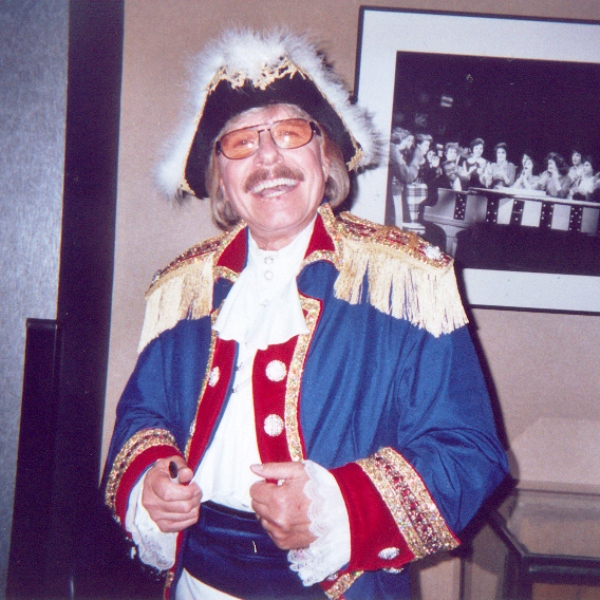 Paul Revere of "Paul Revere and the Raiders" taken at Dick Clark's American Bandstand Theater in Branson, Missouri